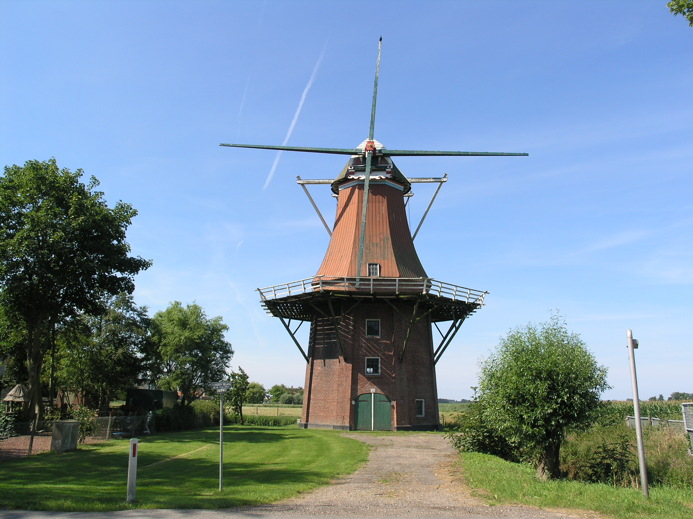 Windmill in Middelstum.